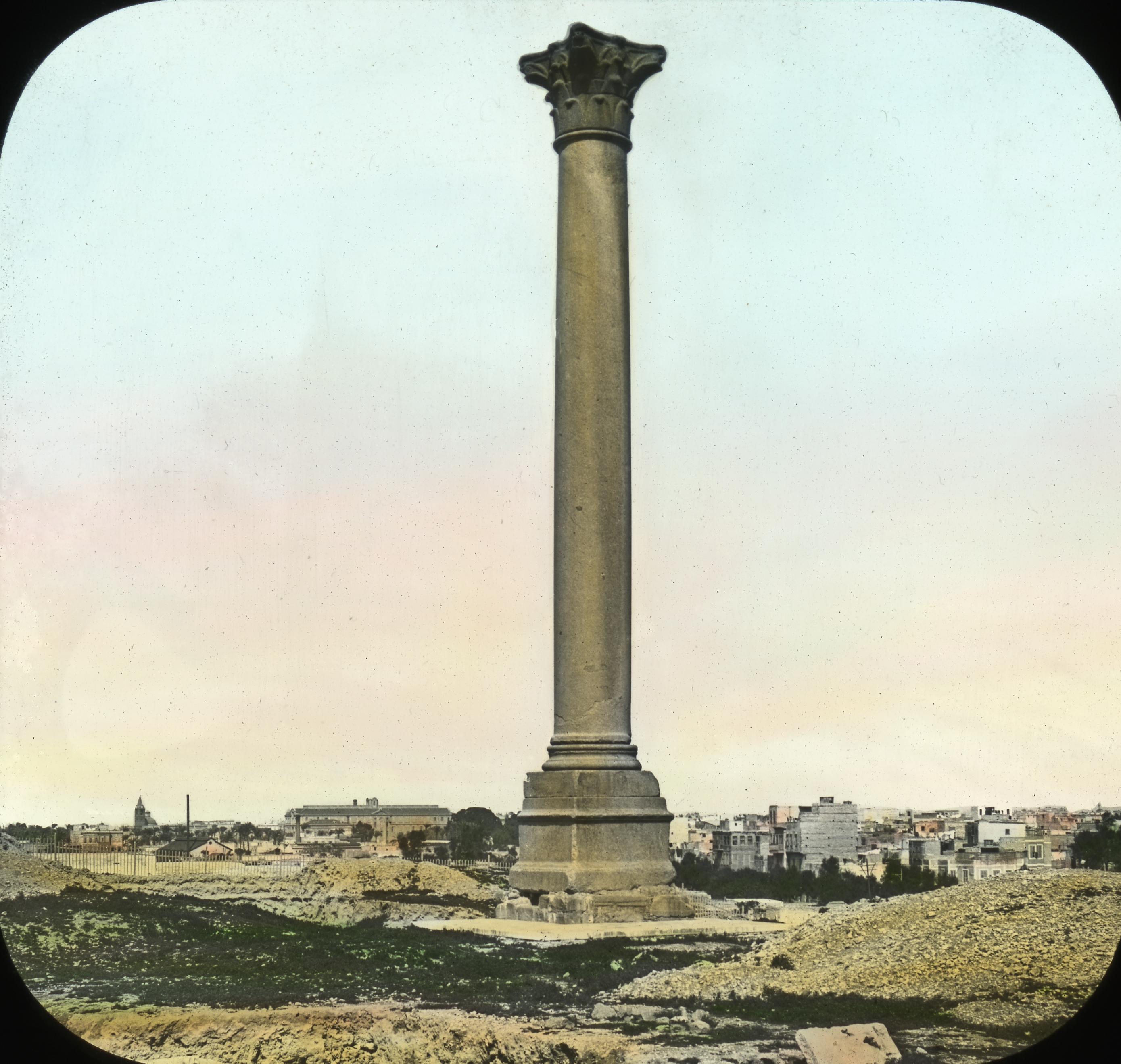 Lantern Slide Collection: Views, Objects: Egypt. General Views\People [selected images]. View 053: Egypt - Pompey's Pillar, Alexandria., n.d. Brooklyn Museum Archives (S10|08 General Views_People, image 9796). Help us map this image by using Suggestify to suggest a location for it.